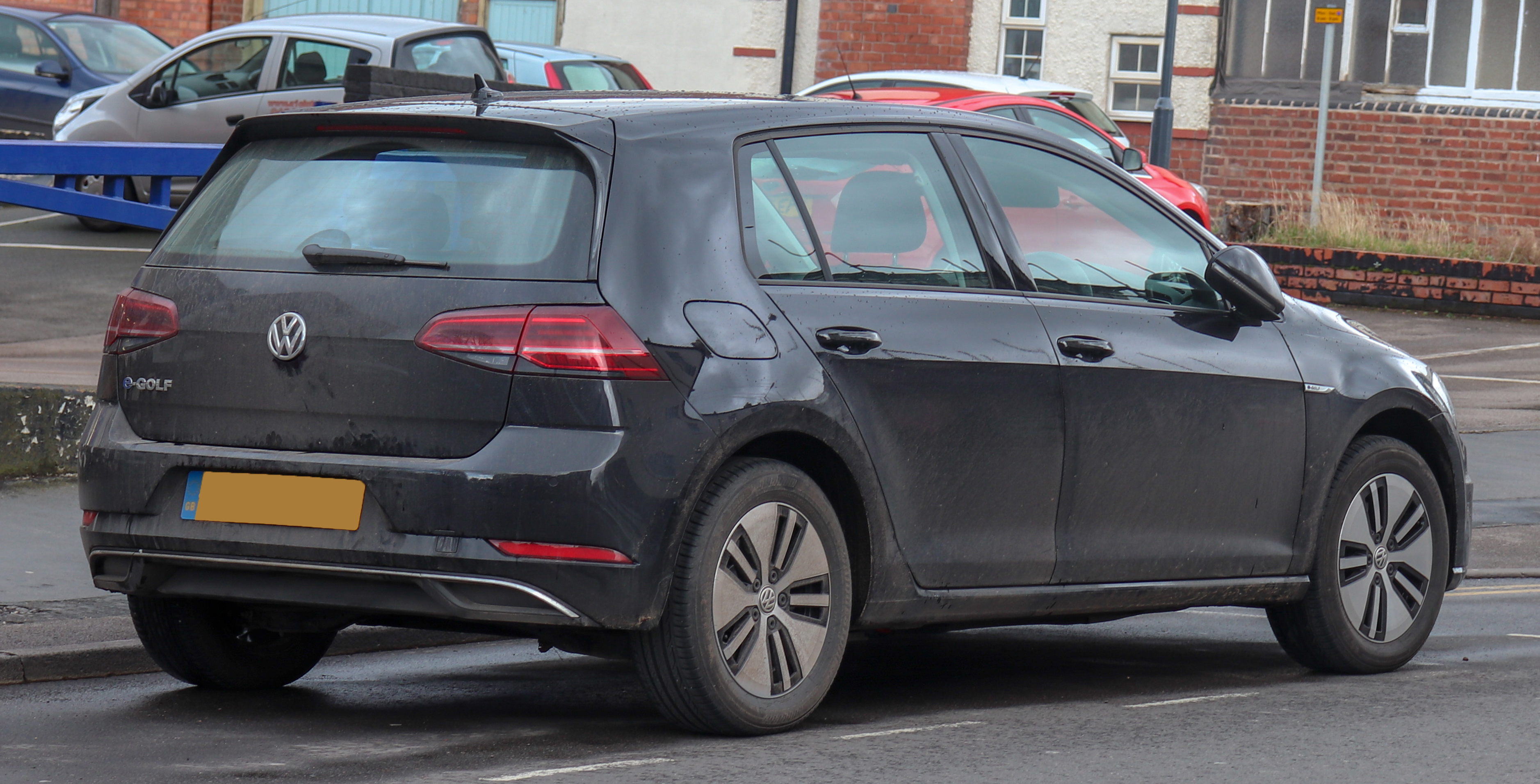 2018 Volkswagen e-Golf Rear Taken in Leamington Spa